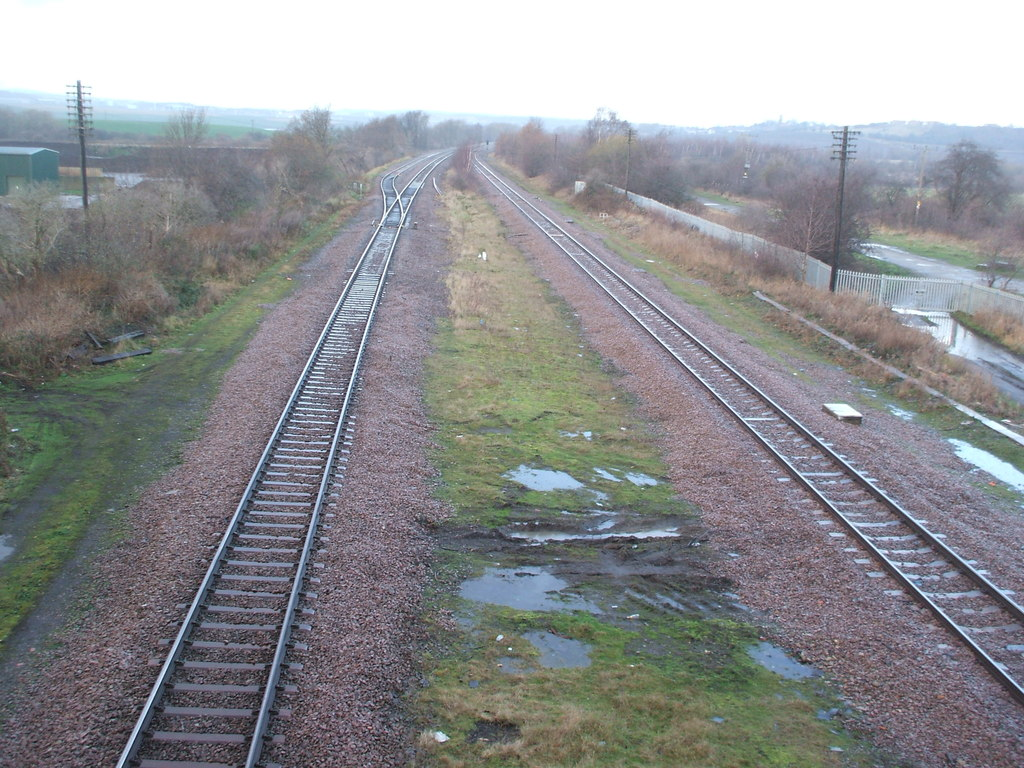 Woodhouse Mill railway station (site), YorkshireOpened in 1841 by the North Midland railway on the line from Rotherham Masborough to Chesterfield, this island-platform station closed to passengers in 1953. View north west towards Treeton and Masborough.